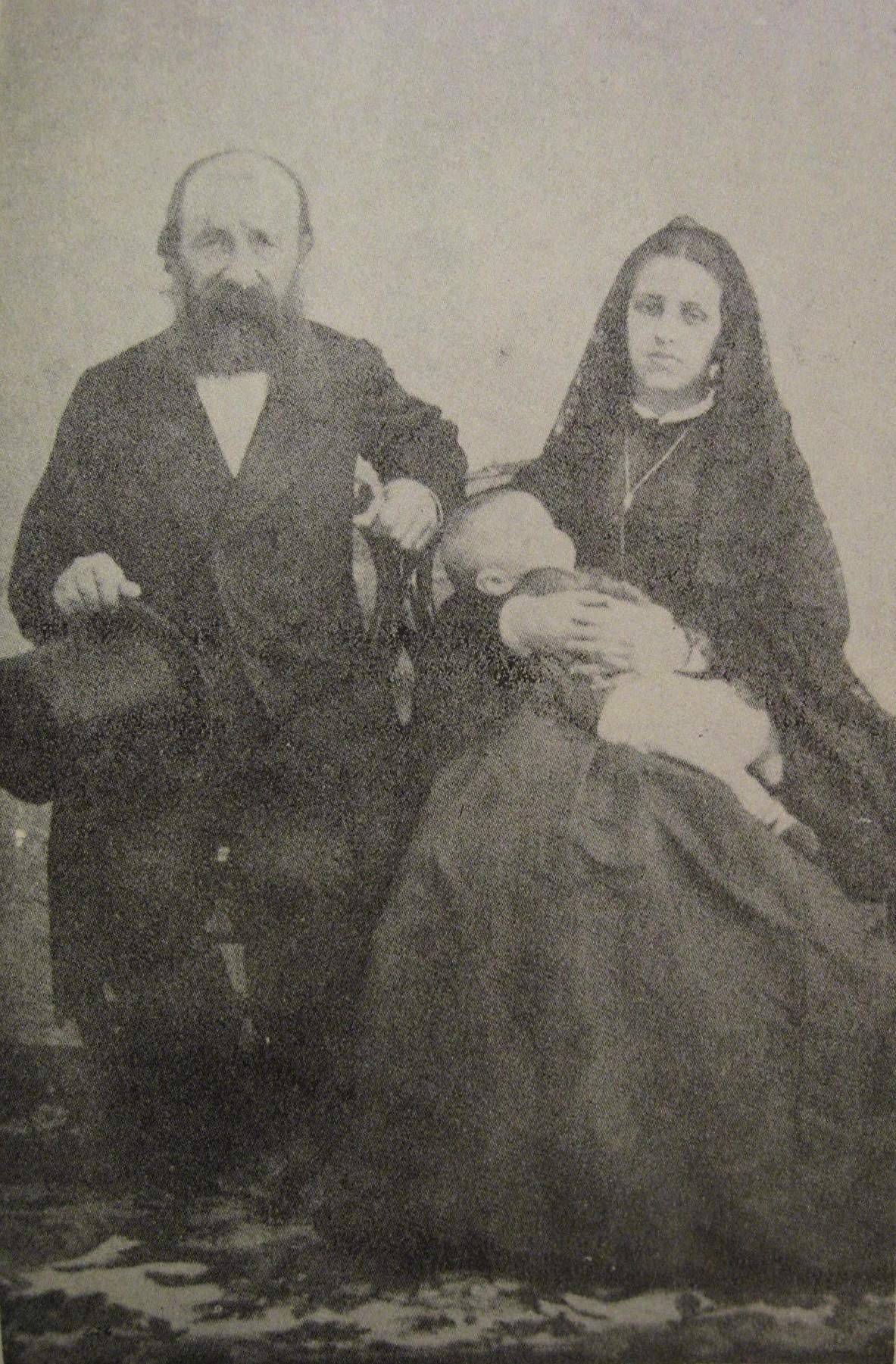 Martin Tritschler and his young wife Rosa María Córdova y Puig with their son Guillermo who bacame archbishop of Monterrey, México, whose canonization is in process before the Vatican. Taken in 1879.